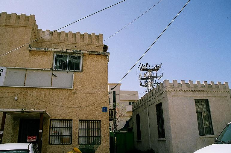 Houses in APC Workers Neighbourhood, Tel Aviv